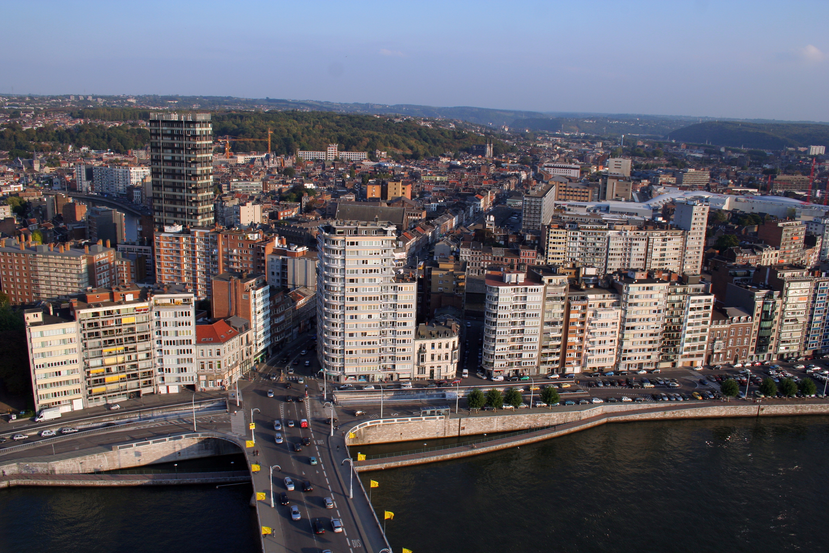 Views of Liège, Belgium.